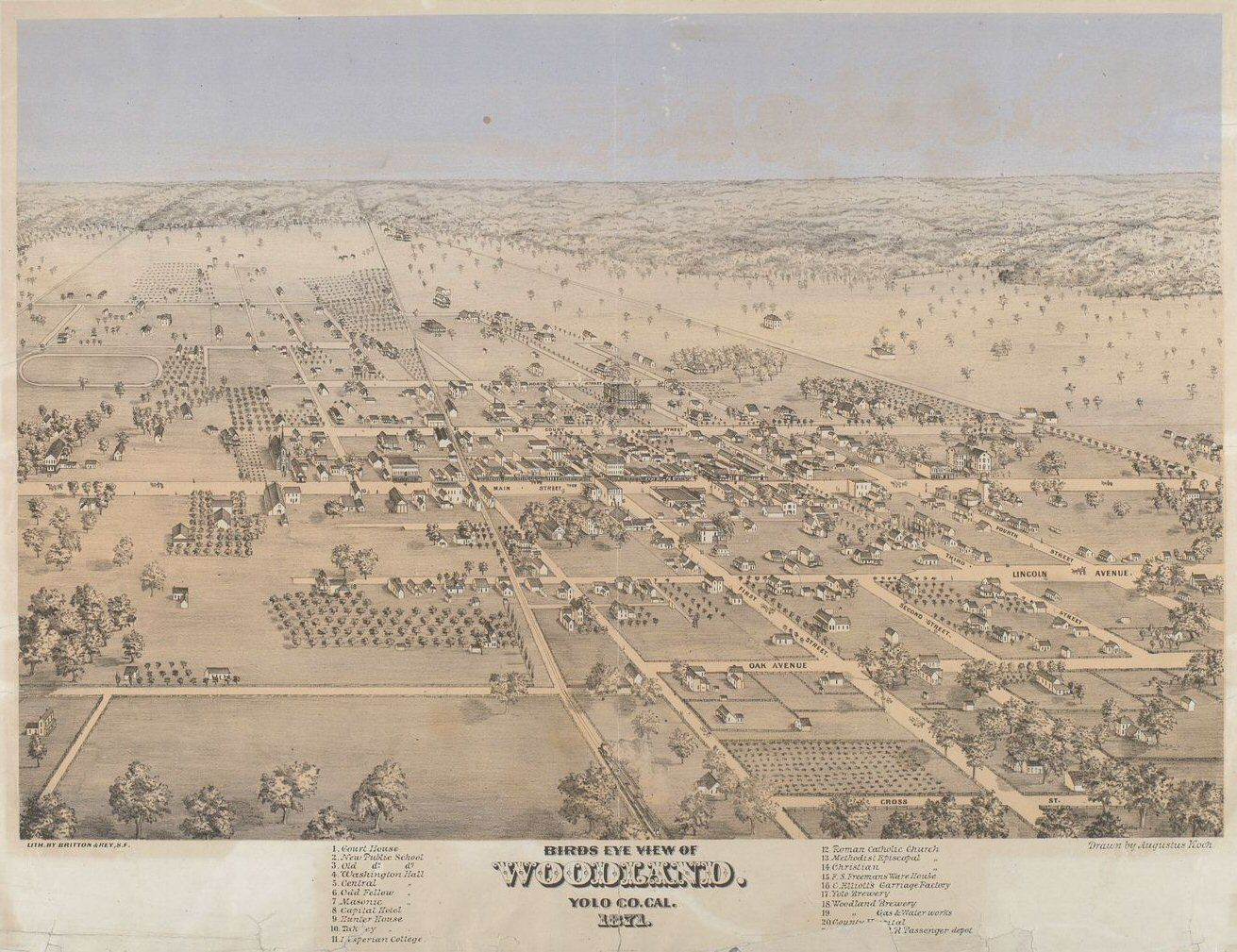 A bird's-eye view of Woodland, CA in 1871. Small town with main street with railroad running through center; outlying houses with gardens and small orchards.